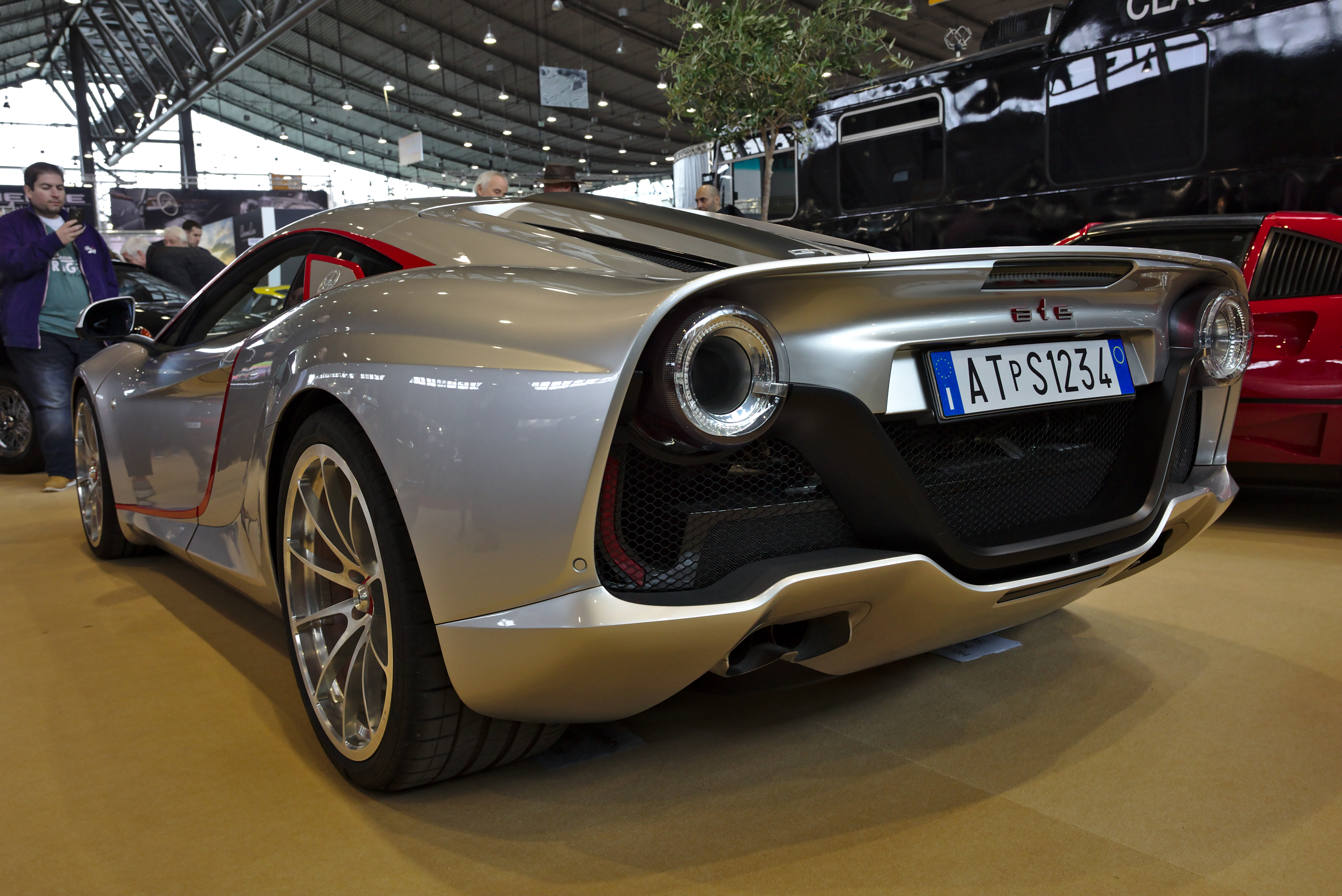 Automobili Turismo e Sport GT at Retro Classics 2018